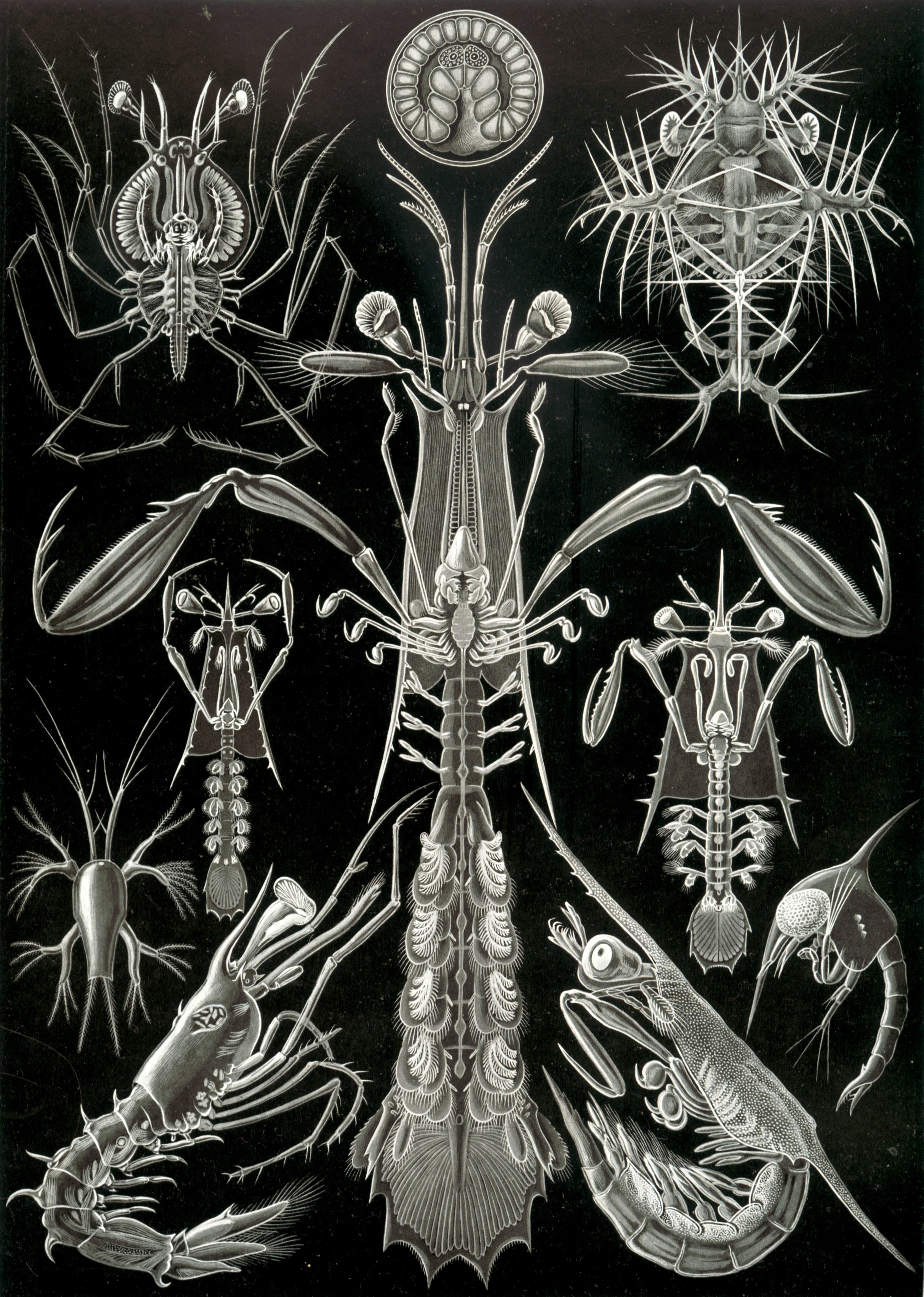 (top center): Lucifer typus (Milne-Edwards), leucifer embryo (gastrula) (bottom left, above): Penaeus Mülleri (Haeckel) = Pleoticus muelleri, nauplius larva (bottom left, below): Mastigopus dorsipinalis (Spence-Bates) = Sergestidae (Sergestes dorsispinalis nomen dubium), mastigopus postlarva (top right): Elaphocaris Dohrnii (Spence-Bates) = Sergestes (non S. ortmanni group; S. elaphrocaris?), elaphocaris larva (top left): Phyllosoma palinuri (Milne-Edwards) = Palinuridae (Palinurus elephas?), phyllosoma larva (bottom right, above): Zoea Carcini (Milne-Edwards) = Carcinus maenas, zoea larva (bottom right, below): Gonerichthus chiragra (Brooks) = Gonodactylus cf. chiragra, gonerichthus larva (left of center): Alima gracilis (Milne-Edwards) = Alima neptuni, alima postlarva (right of center): Alima gracilis (Milne-Edwards) = Alima neptuni, alima postlarva (center): Alima bidens (Claus) = Alima neptuni, old postlarva